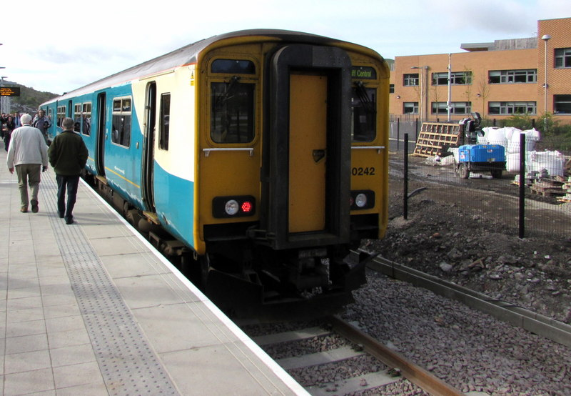 First scheduled arrival at Ebbw Vale Town railway station. On Sunday May 17th 2015, this Arriva Trains Wales 7.40am departure from Cardiff Central has just arrived at Ebbw Vale Town station. This first scheduled arrival at the new station will shortly also be the first scheduled departure, on the return trip to Cardiff Central.